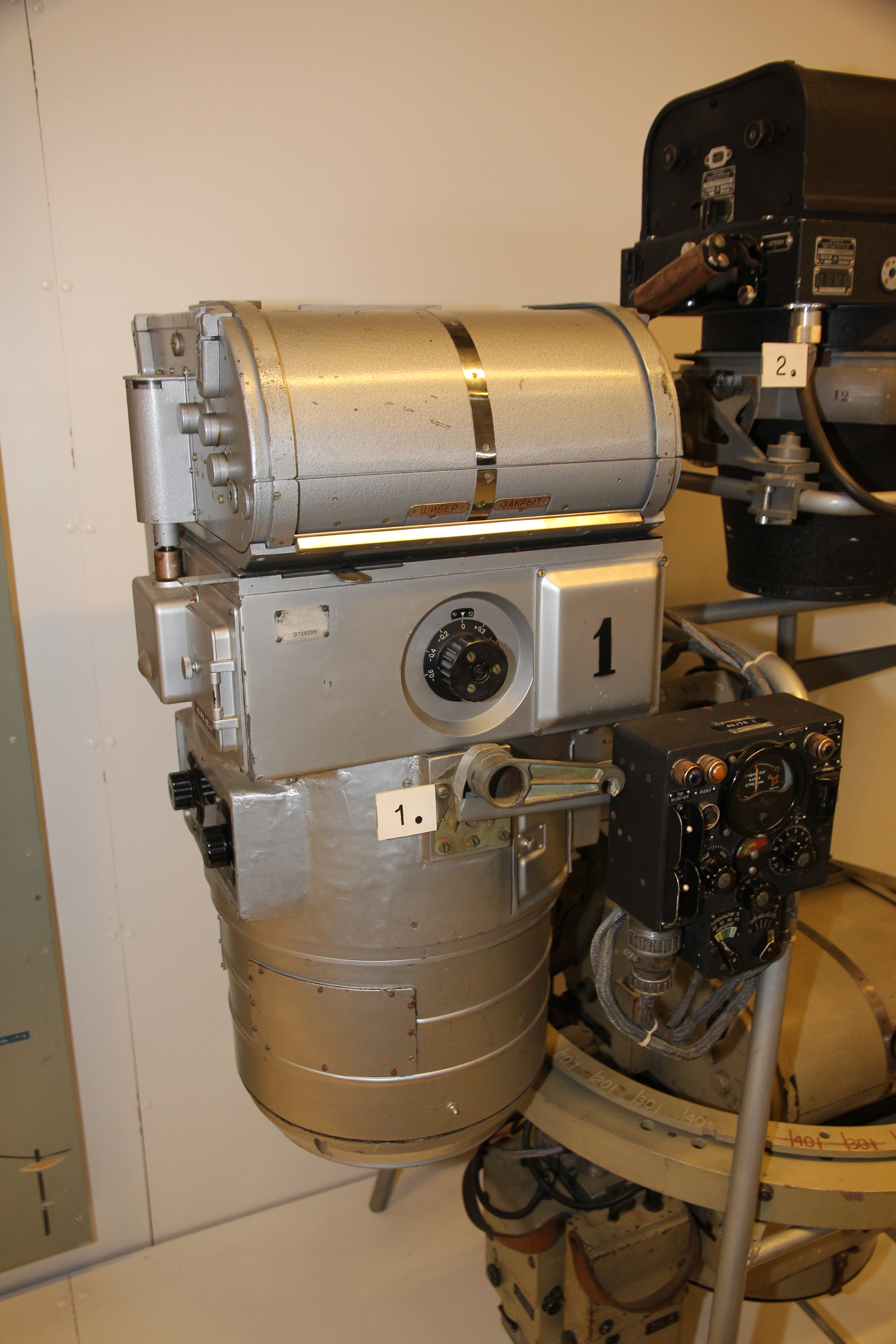 Soviet AFA-42 aerial reconnaissance camera in the Aviation Museum of Central Finland. Used Finland with Ilyushin Il-28 planes, negative size 30 x 30 cm, focal length 100 cm, 215 images.